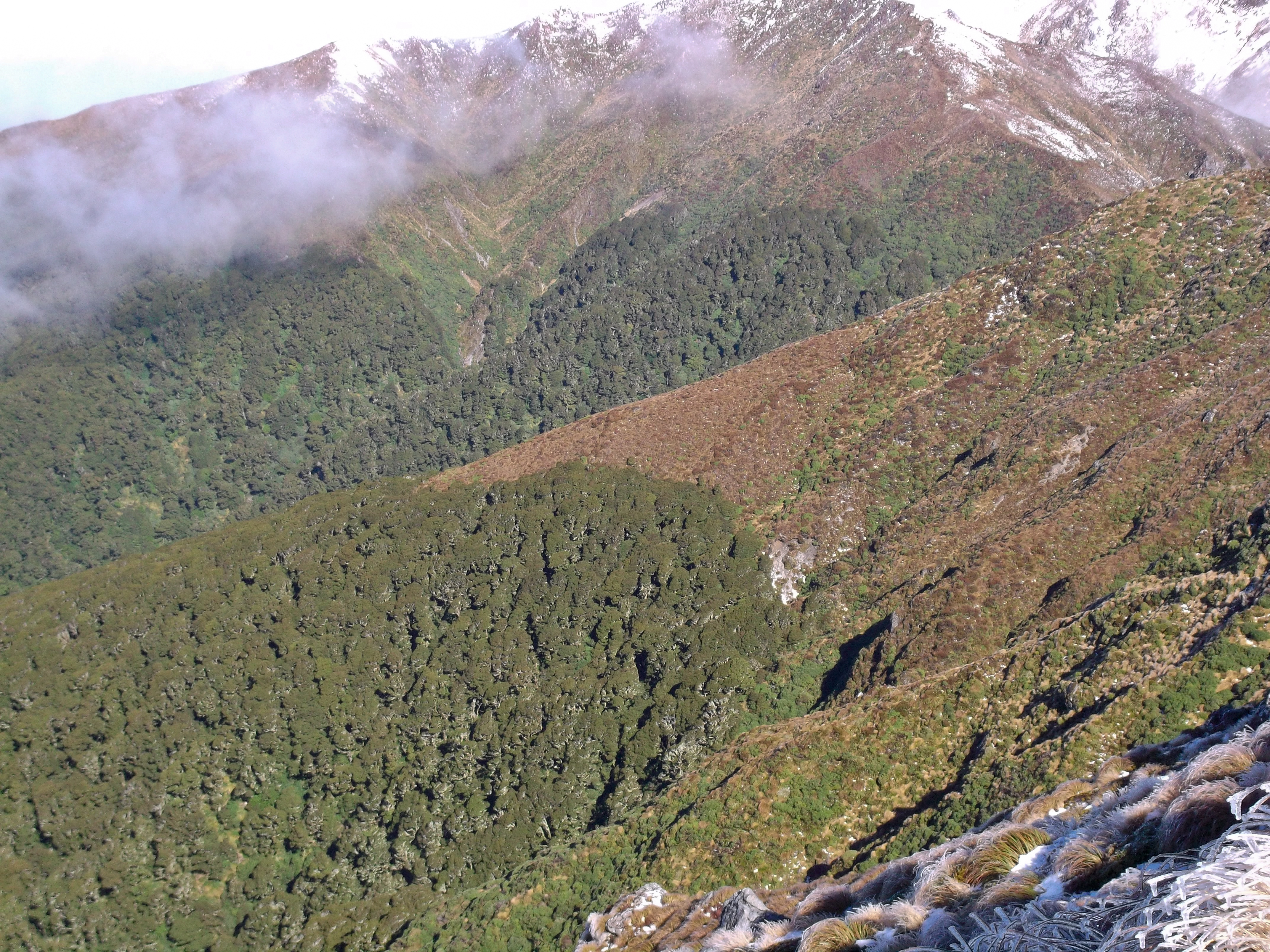 A quite prominent treeline in the Tararua Range.